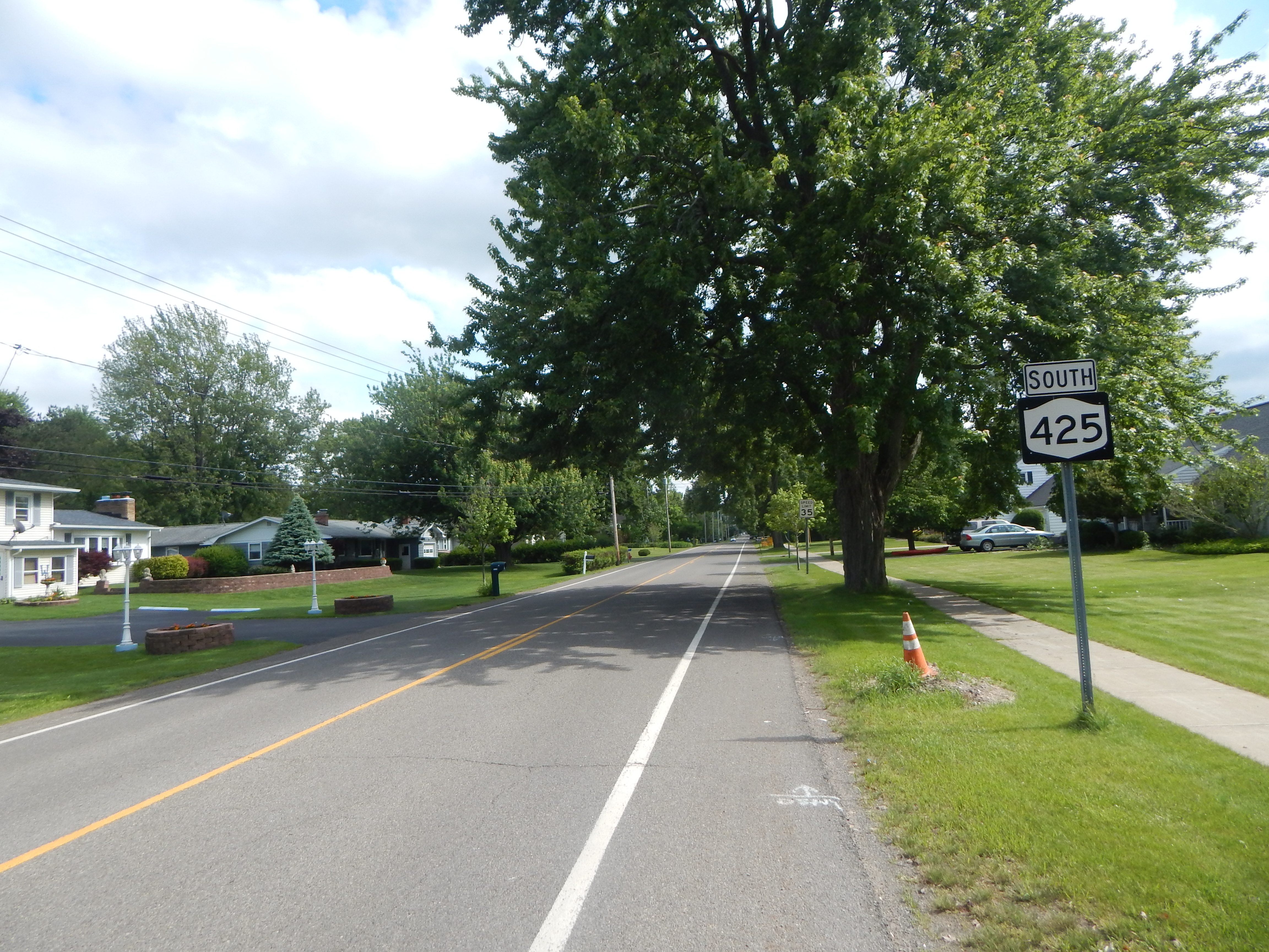 Route 425 southbound in Wilson, New York.